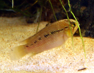 Nannacara adoketa female